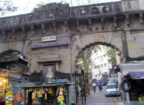 This temple is Shiva temple.